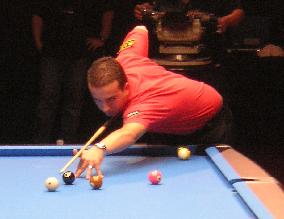 David Alcaide at the World Pool Masters 2007